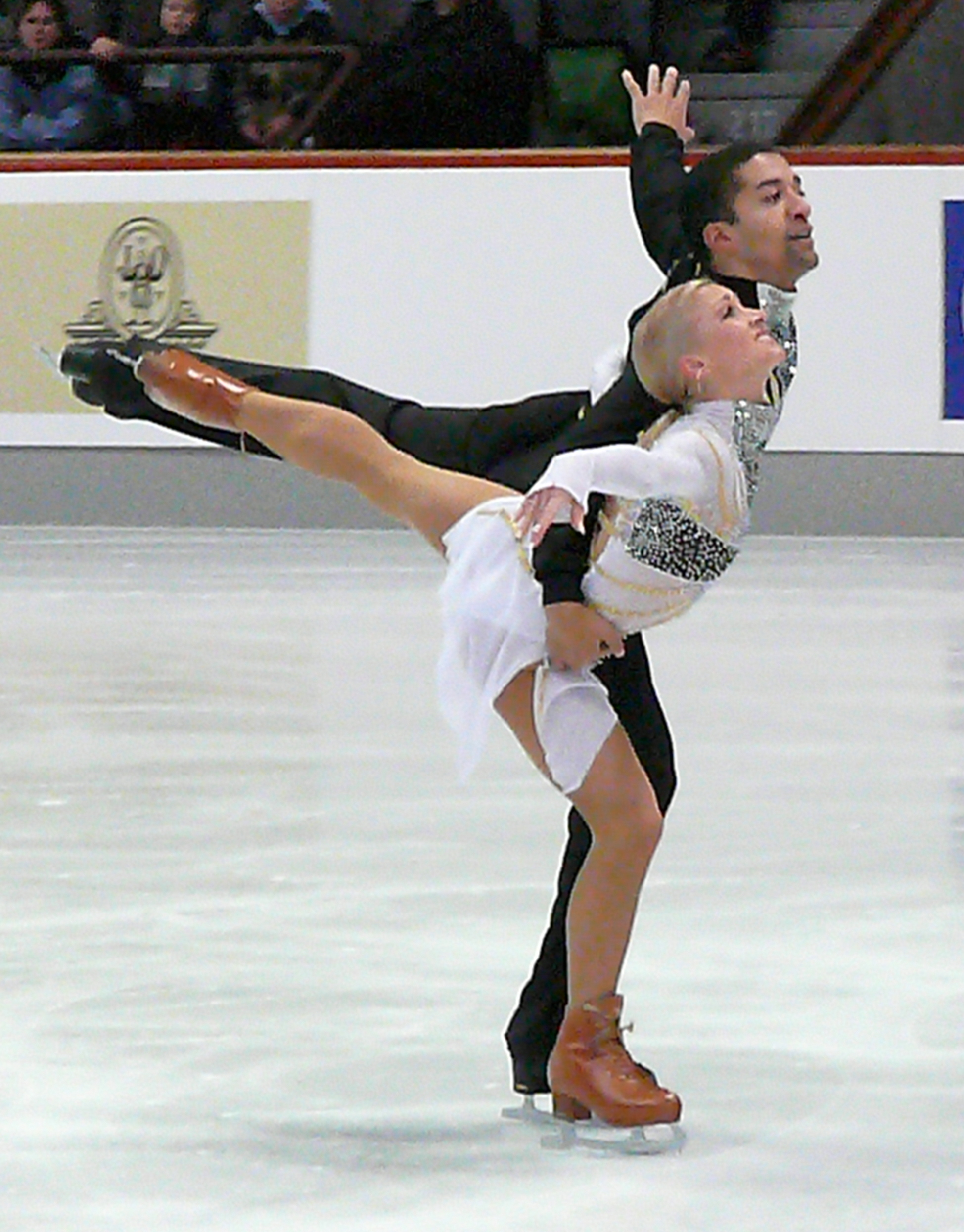 Aljona Savchenko and Robin Szolkowy at the Free Program of the German Championships in Firgure Skating Pairs 2007 in Oberstdorf